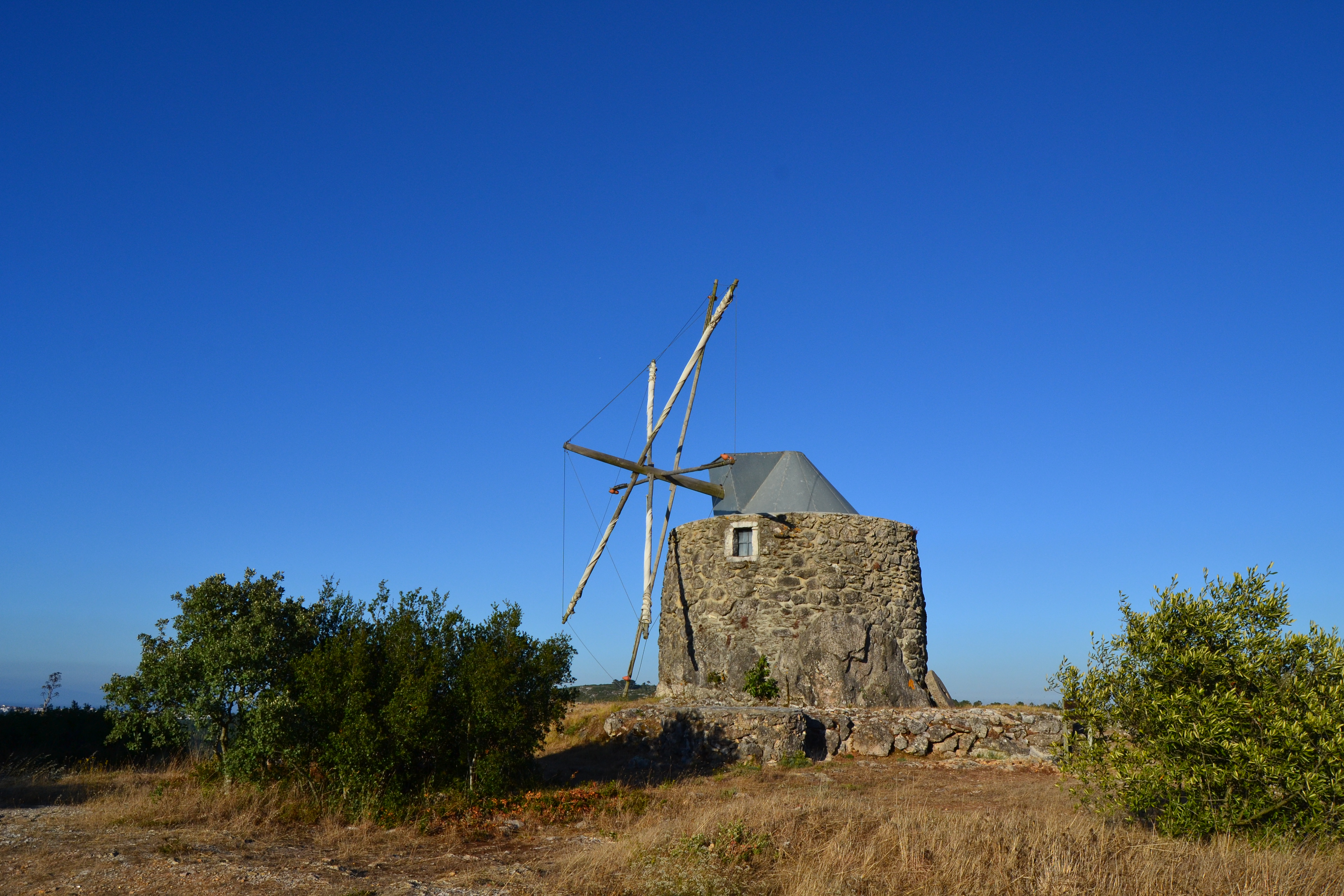 This is a photography of a Site of Community Importance in Portugal with the ID: PTCON0015. Natura2000 entry, EEA entry